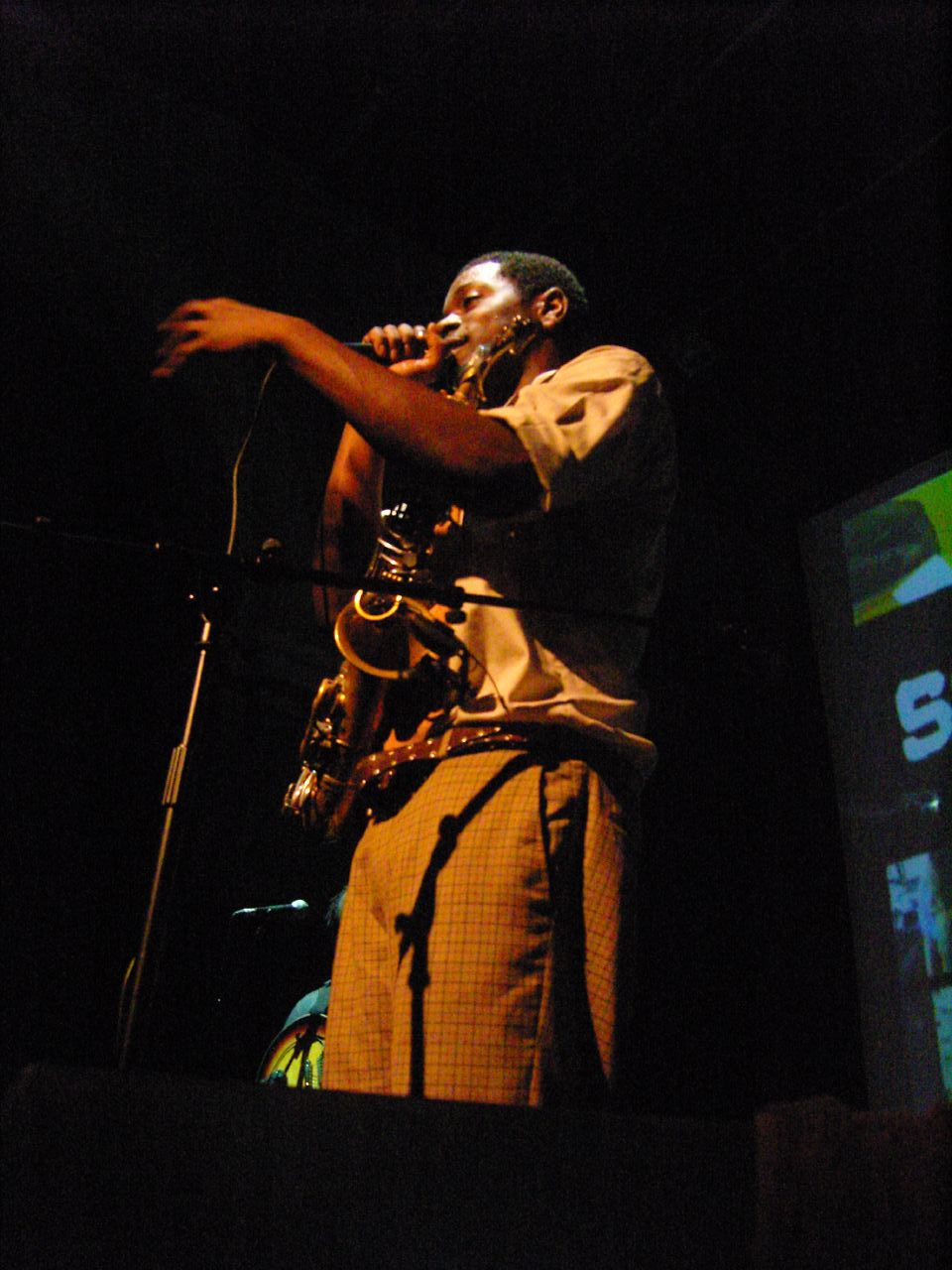 description: Soweto Kinch photographer: cowbite photographer_location: unknown photographer_url: [1] flickr_url: [2] taken:November 04, 2007